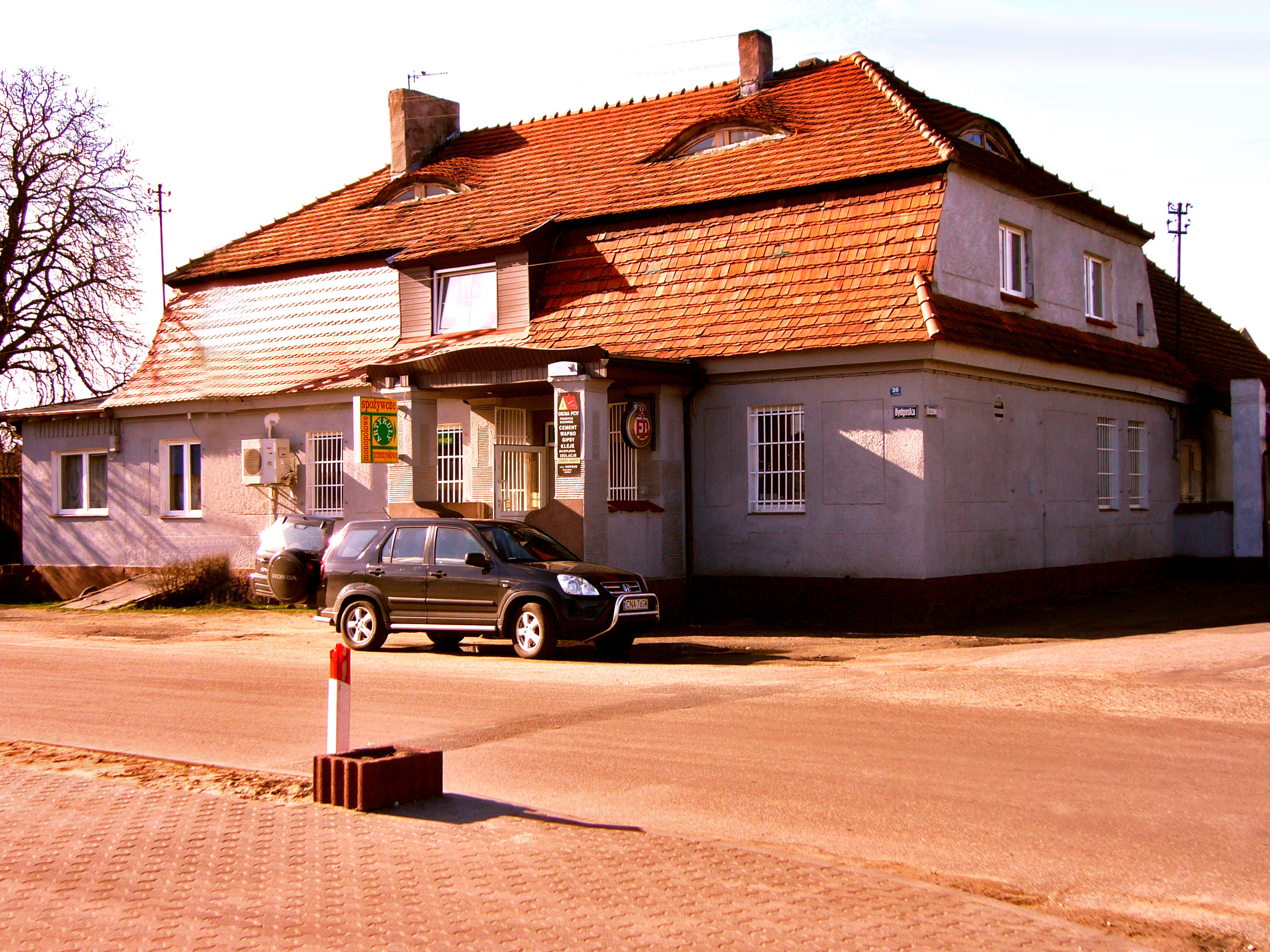 the old restaurant building in Tur